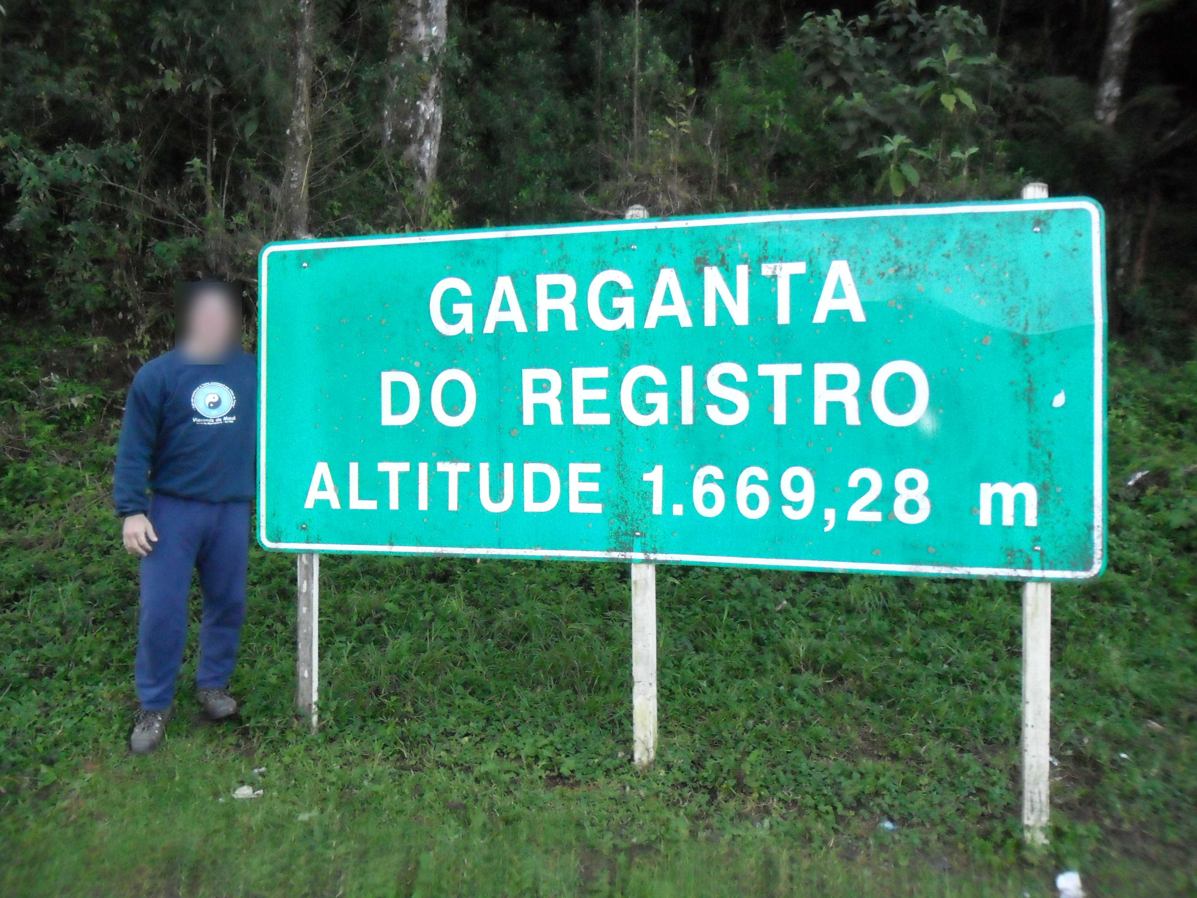 Altitude sign on BR-354 highway, Brazil, at the Garganta do Registro mountain pass. Changed from original picture by ArthurvBarros by blurring the face of the pictured young man.